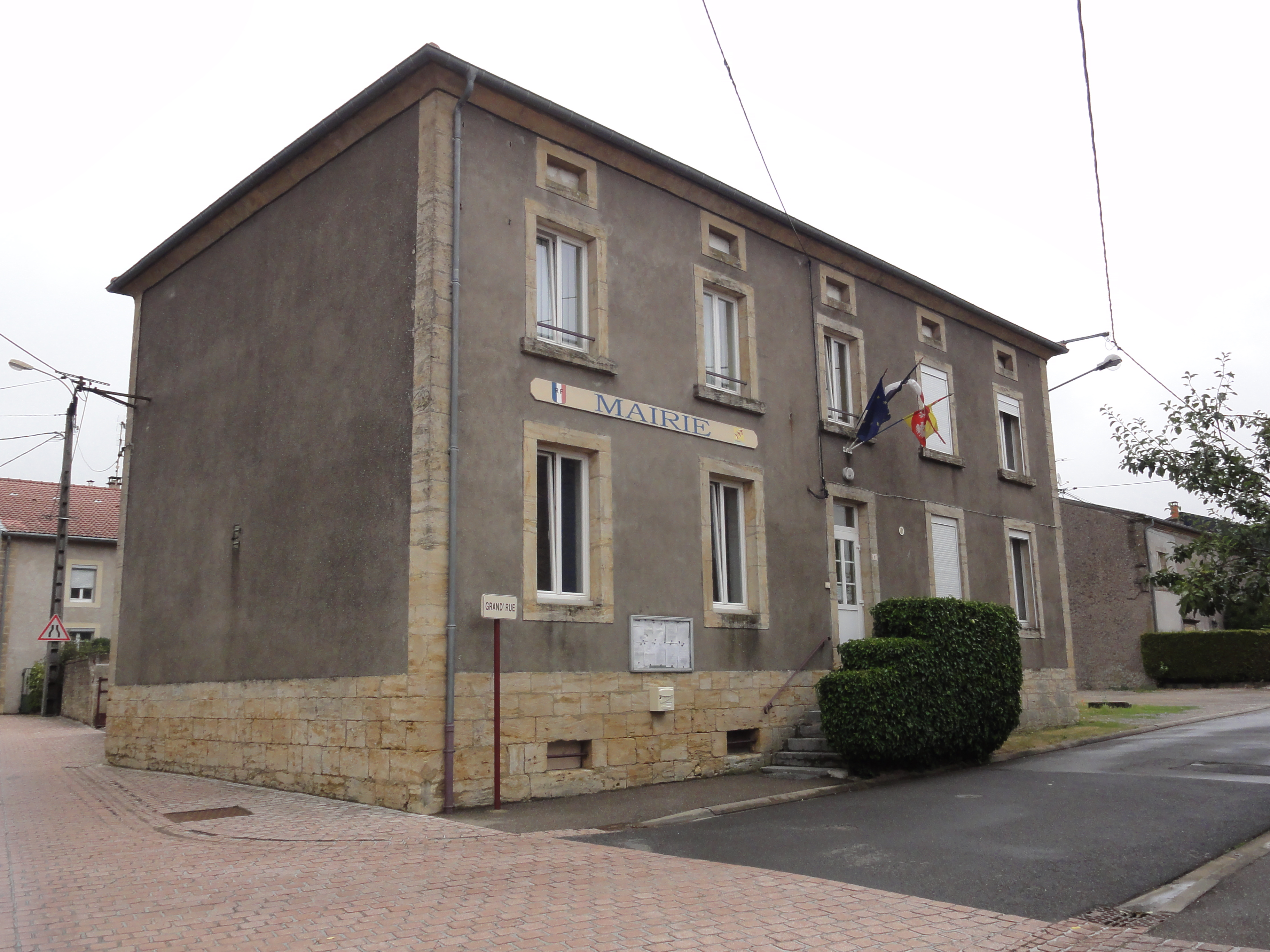 Laix (Meurthe-et-M.) mairie